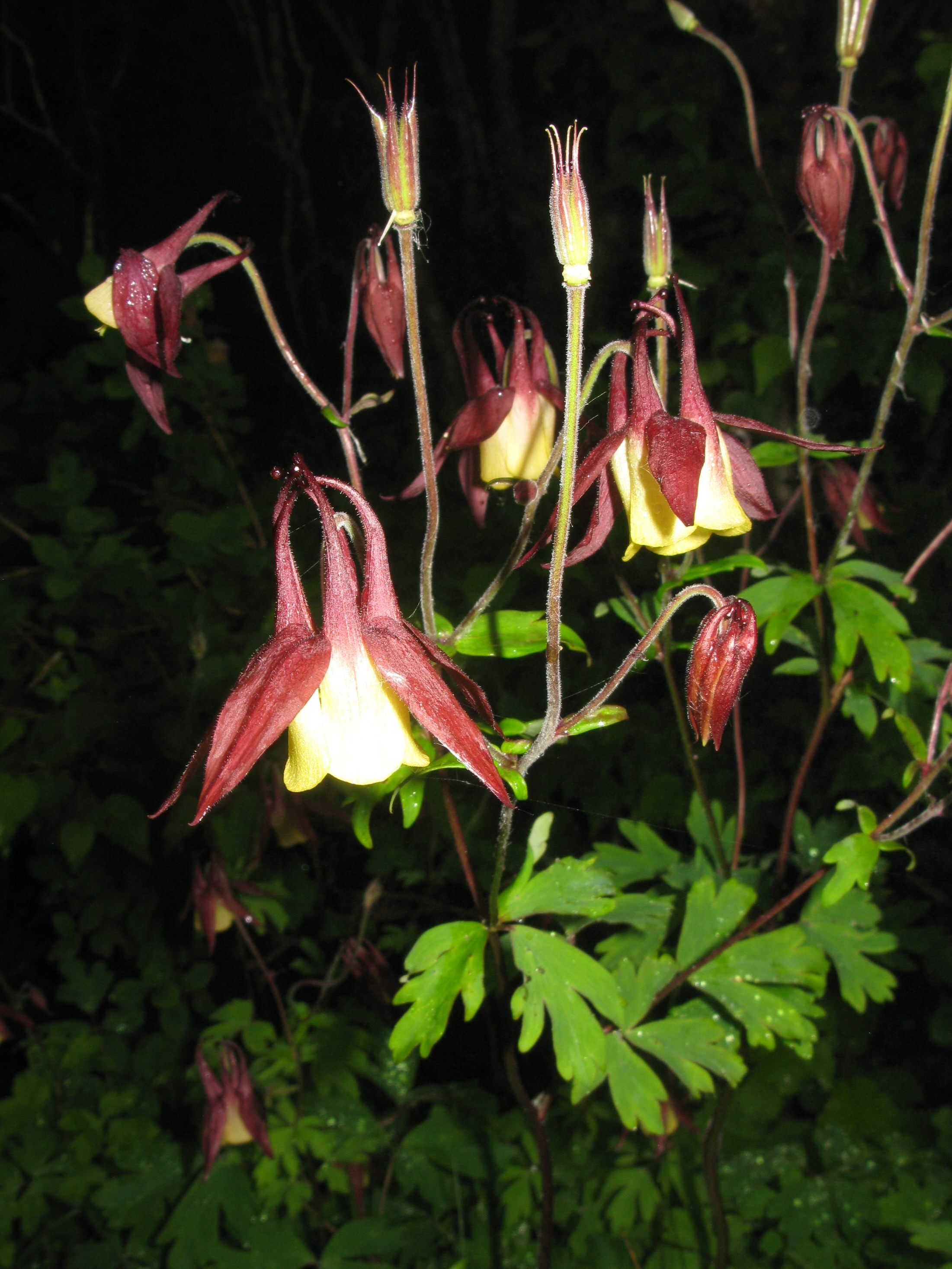 Aquilegia buergeriana, Mount Hayachinesan, Iwate pref., Japan